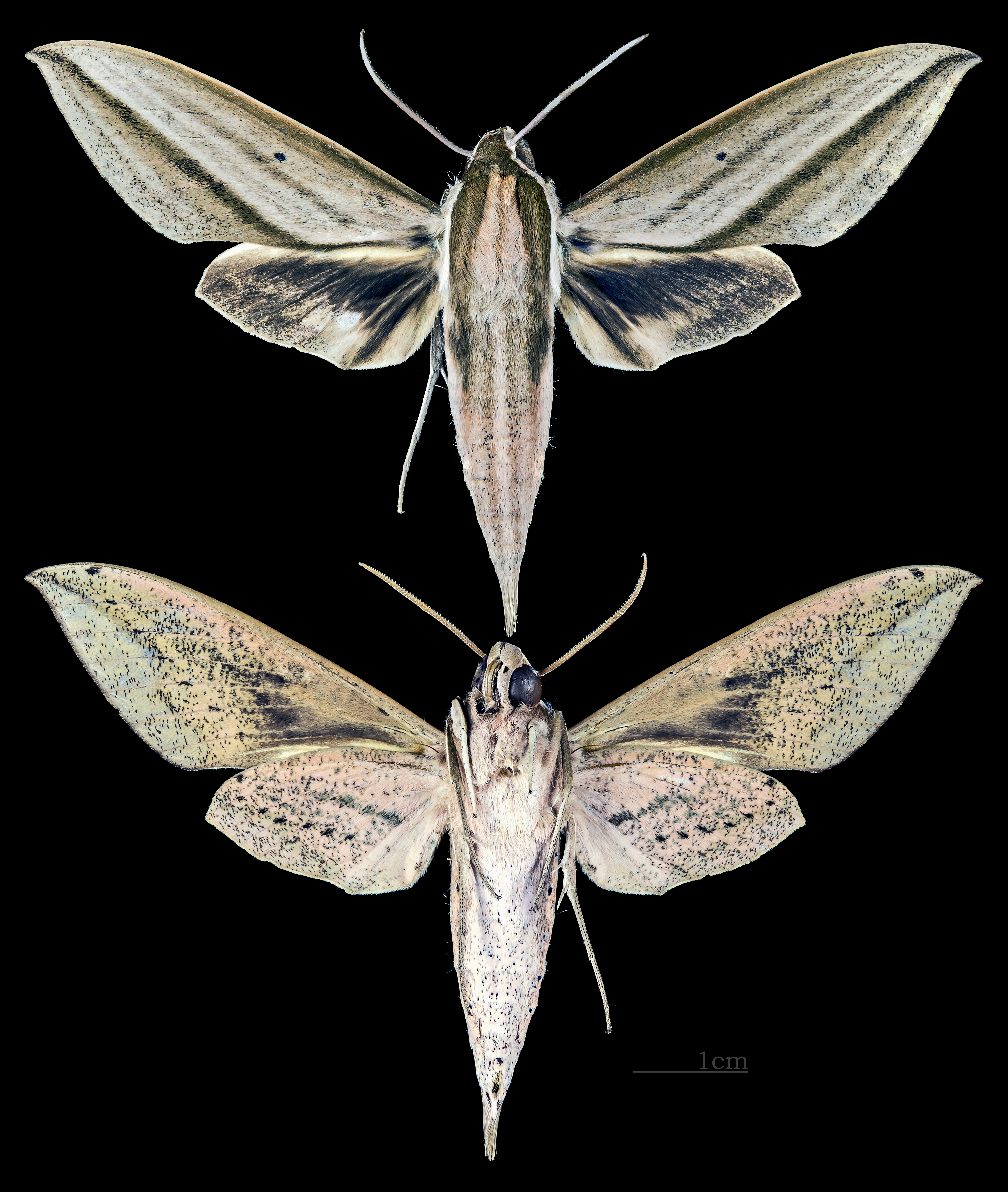 Theretra radiosa - Two views of same specimen Collection of the Mathematician Laurent Schwartz